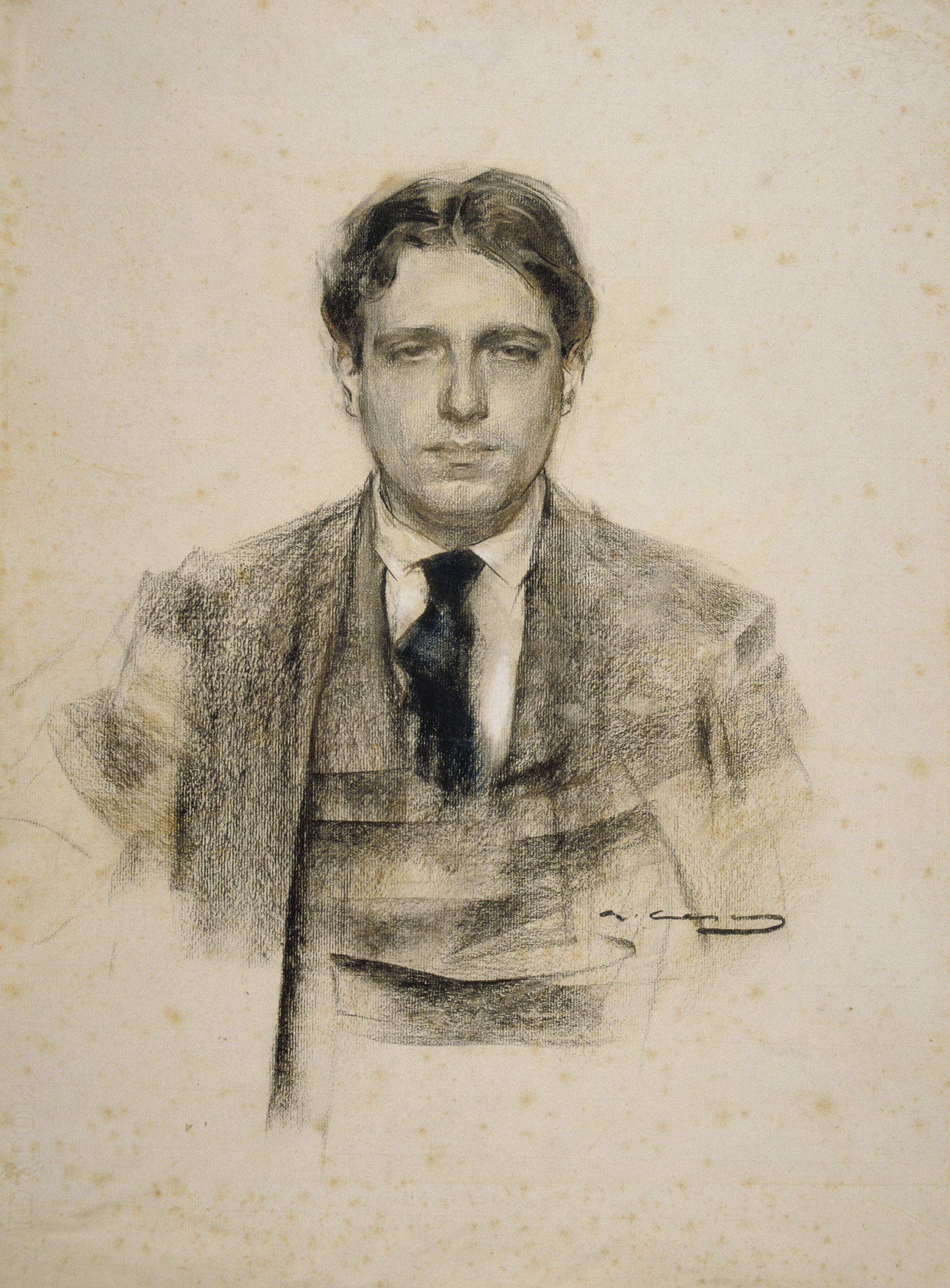 Portrait by Ramon Casas conserved at MNAC in Barcelona.